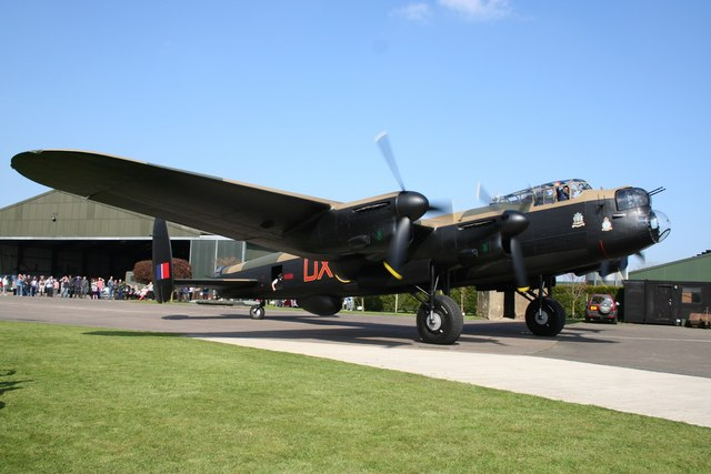 Lancaster Bomber The Lancaster at East Kirkby Lincolnshire Aviation Heritage Centre on a taxi run